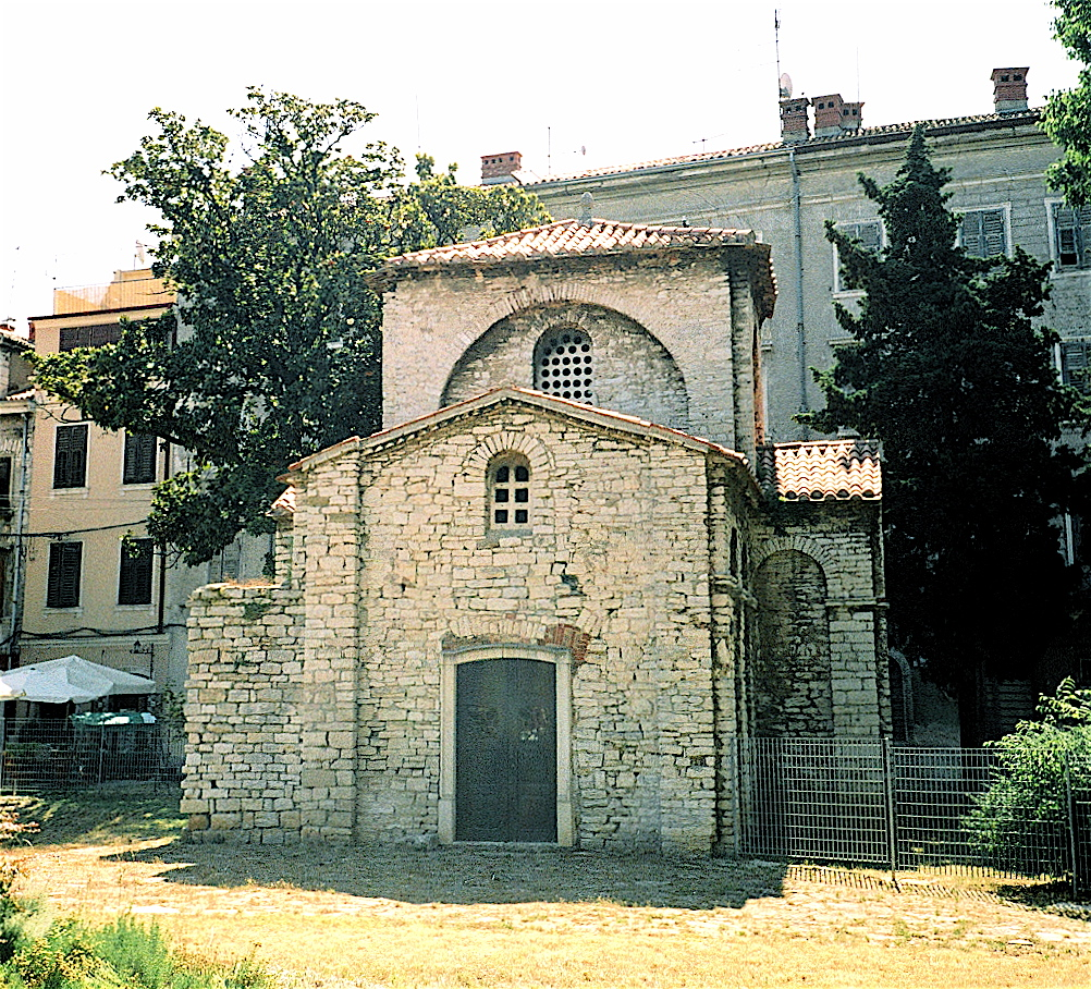 Small church in Pula